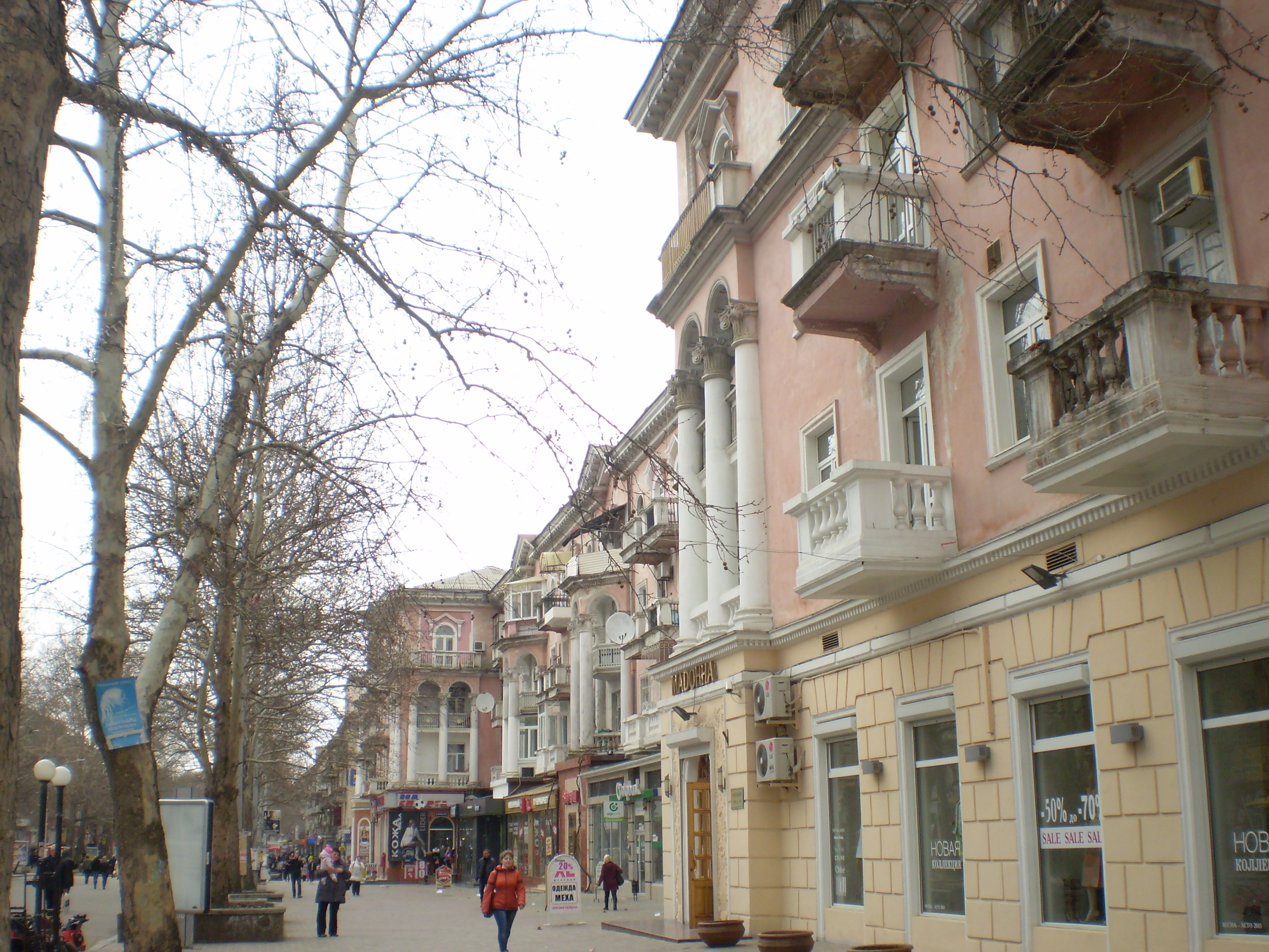 Миколаївська весна у Вікіпедії